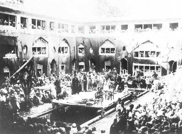 Antoin sevruguin's historical photographs